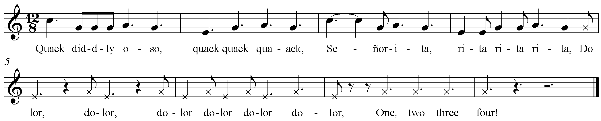 Song for the clapping game "Quack diddly oso".